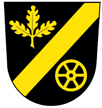 Old coat of arms of the district Riegelsberg